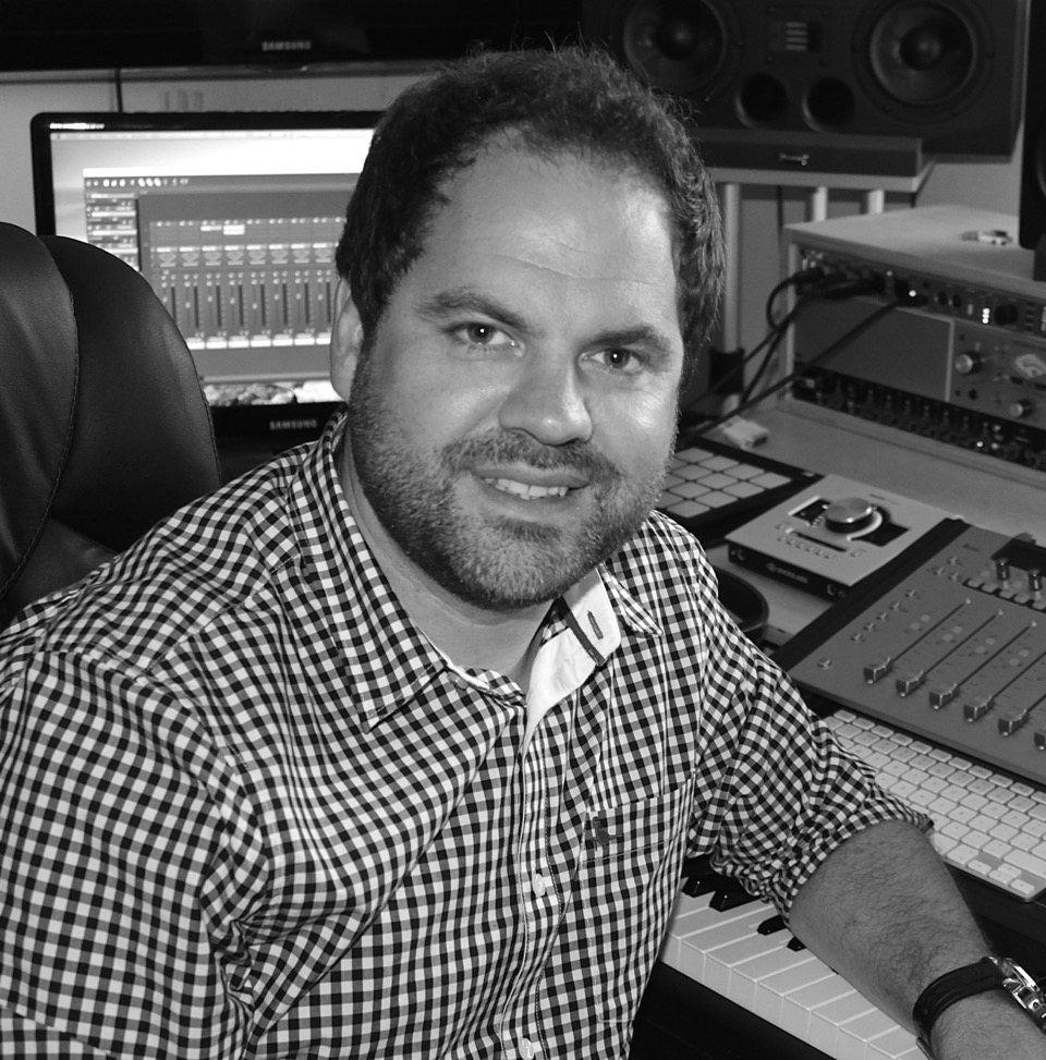 Glyn in his studio near Canterbury, Kent, England.